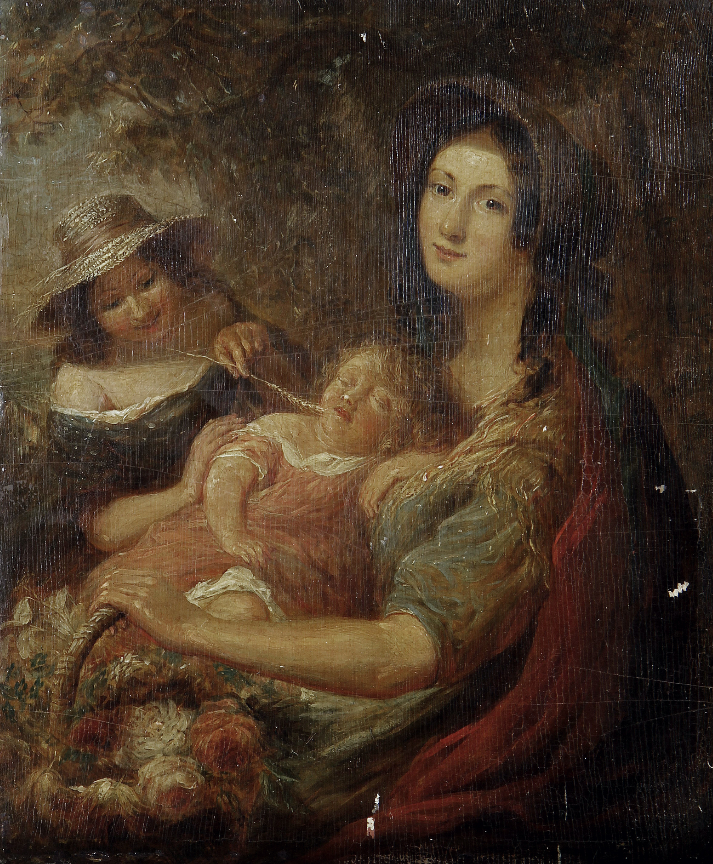 Being tickled. Oil on panel, 30 x 25 cm